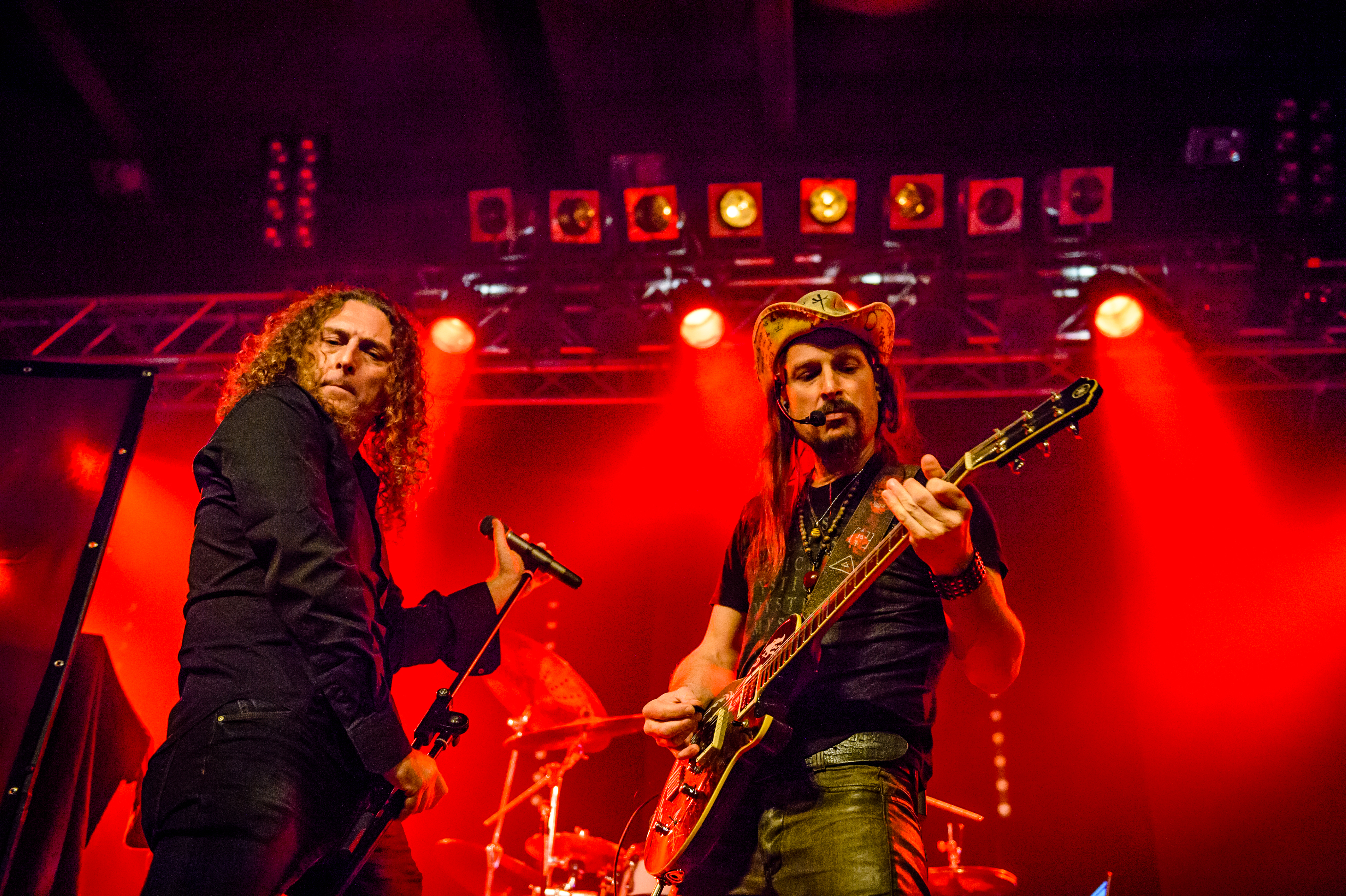 Angra supporting Tarja Turunen - The Shadow Shows Tour; Live Music Hall Köln 2016